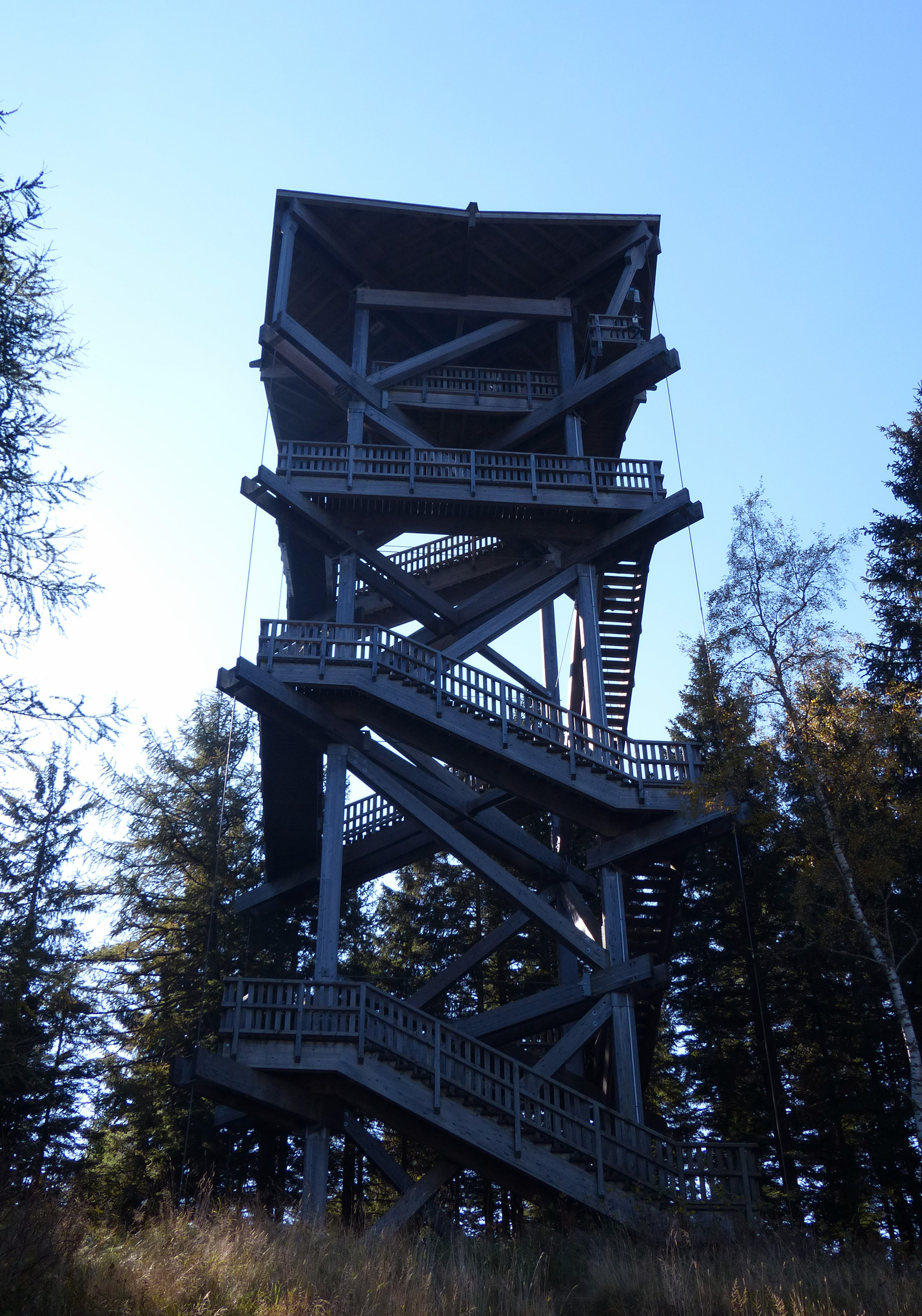 Milleniumswarte lookout at the Hirschenkogel hill (1341 m) in Lower Austria. Also called Dr.-Erwin-Pröll-Warte.